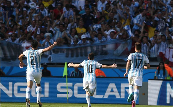 Lionel Messi celebrating after scoring a goal against Iran at the 2014 FIFA World Cup